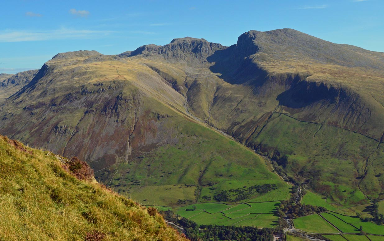 View from Yewbarrow of Scafell massif, showing Scafell Pike in the centre, Sca Fell on the right, and Lingmell on the left.